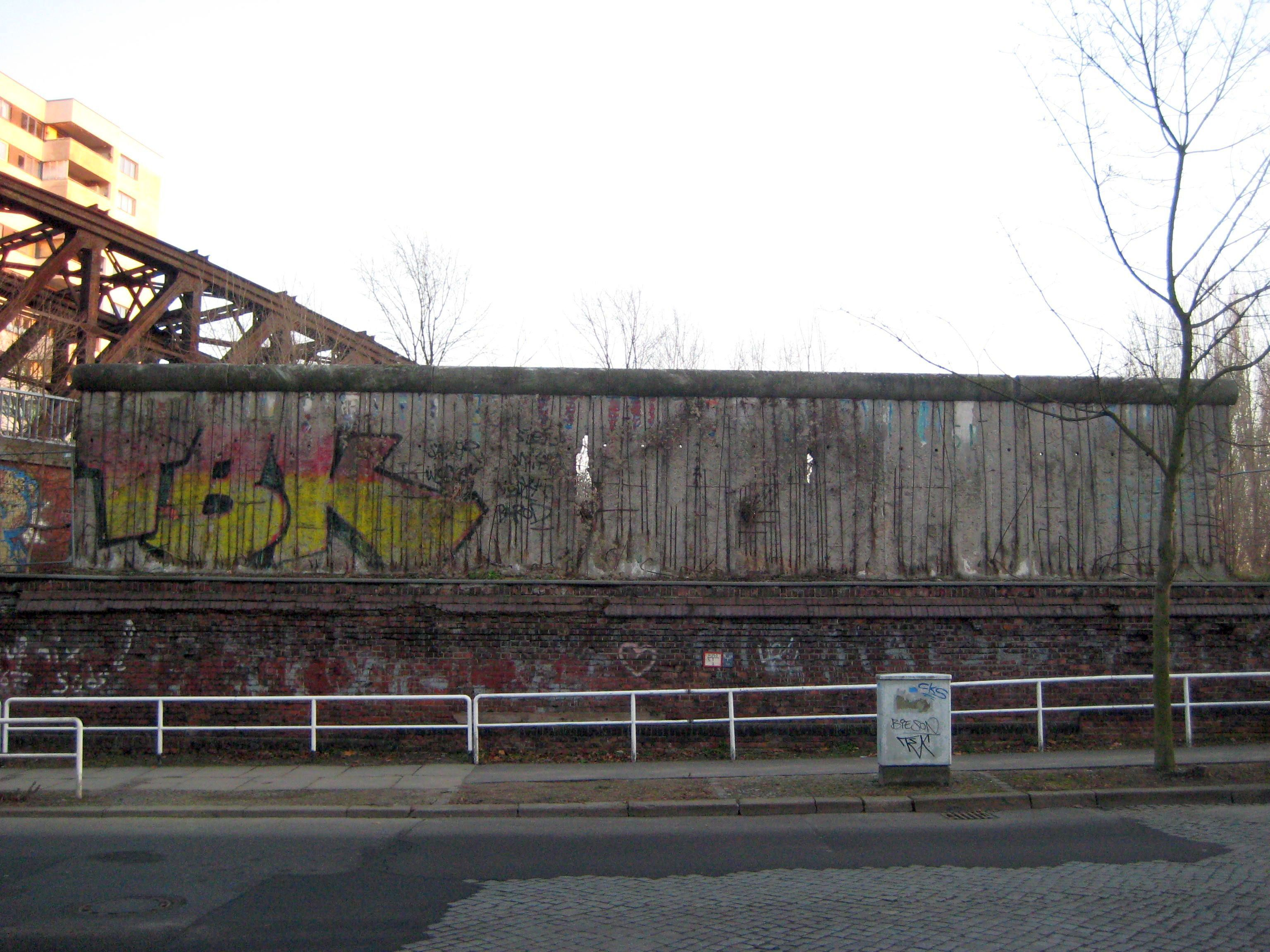 remnant of Berlin Wall at Liesenstraße, situated on top of the old wall of the cemetery of St. Hedwig congregation